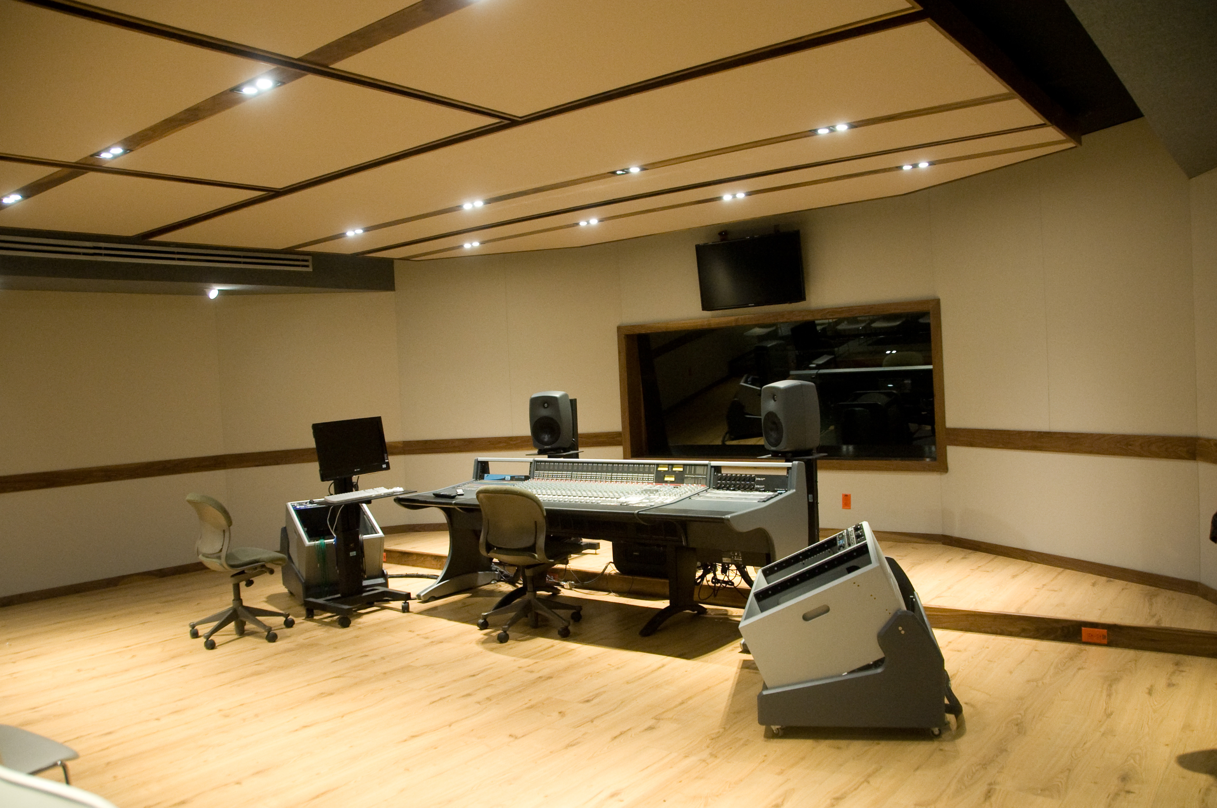 Console at the sound studio at Tec de Monterrey, Mexico City Campus.